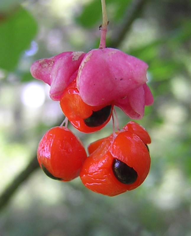 Euonymus